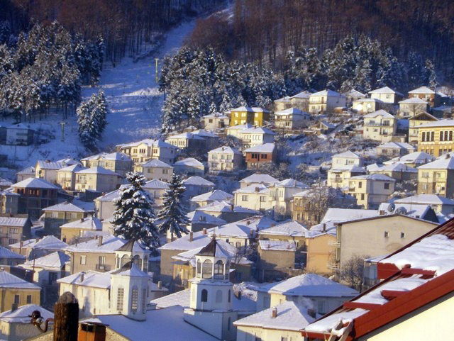 His hometown Krushevo.